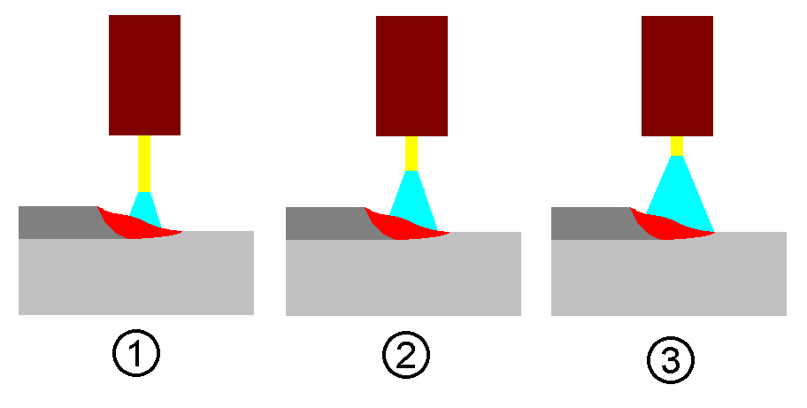 Arc of arc welding.In case constant current ,1)Low voltage,2)Mid volatge, 3)High voltage. In case constant voltage ,1)High current,2)Mid current, 3)Low current.